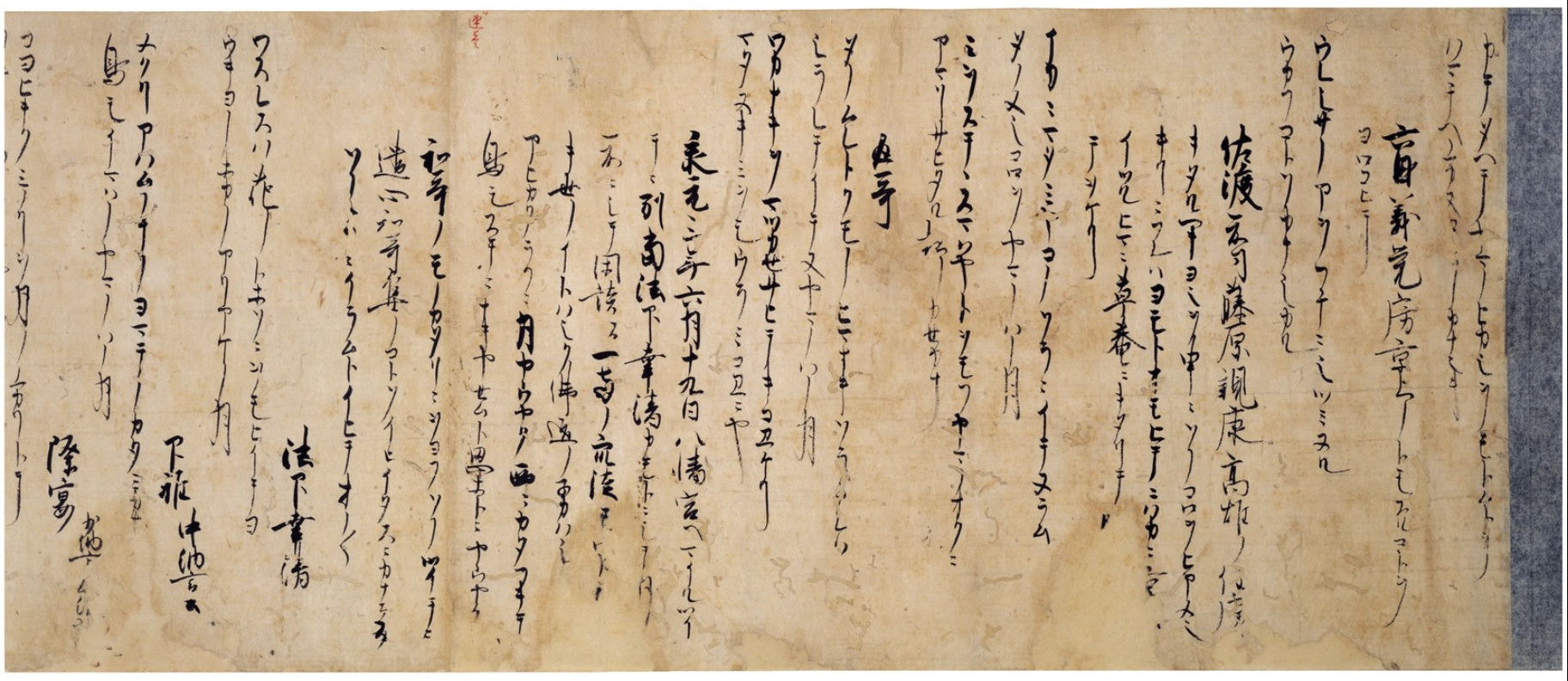 Collection of Poems by Priest Myōe (明恵上人歌集, Myōe Shōnin Kashū)